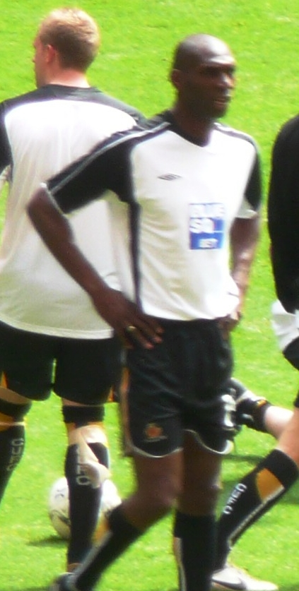 Leo Fortune-West warming up for Cambridge United against Exeter City at Wembley Stadium, London on 18 May 2008